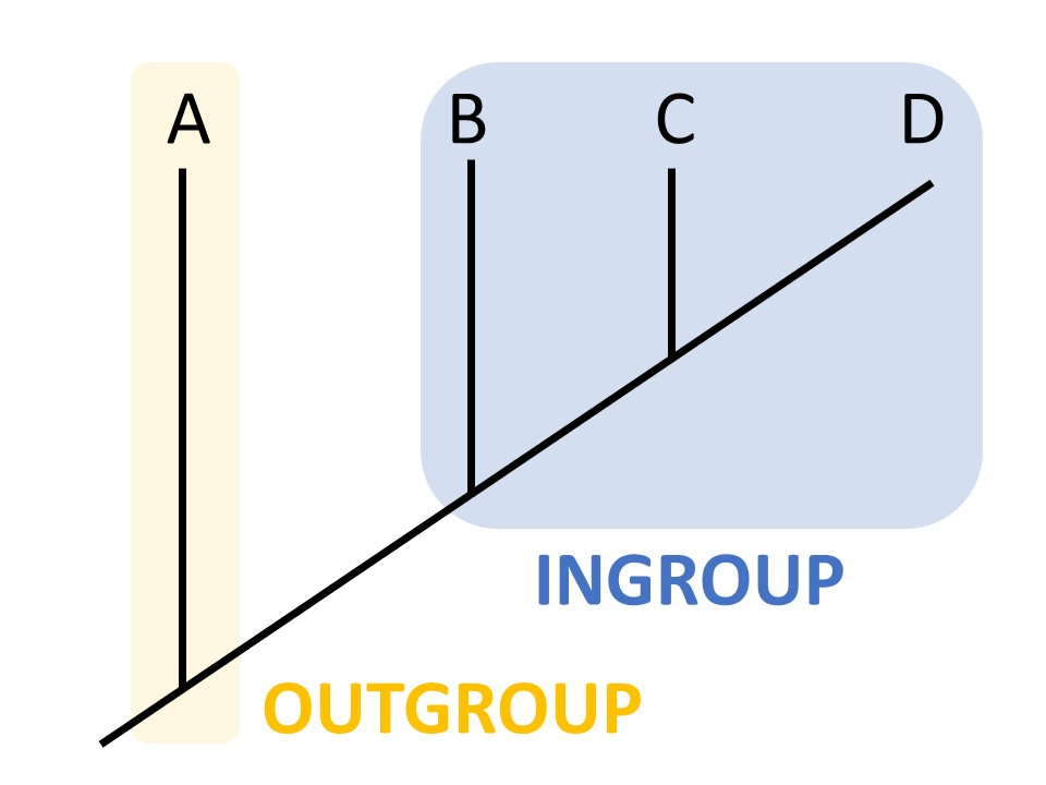 I created this diagram of a simple cladogram to illustrate what an outgroup is.